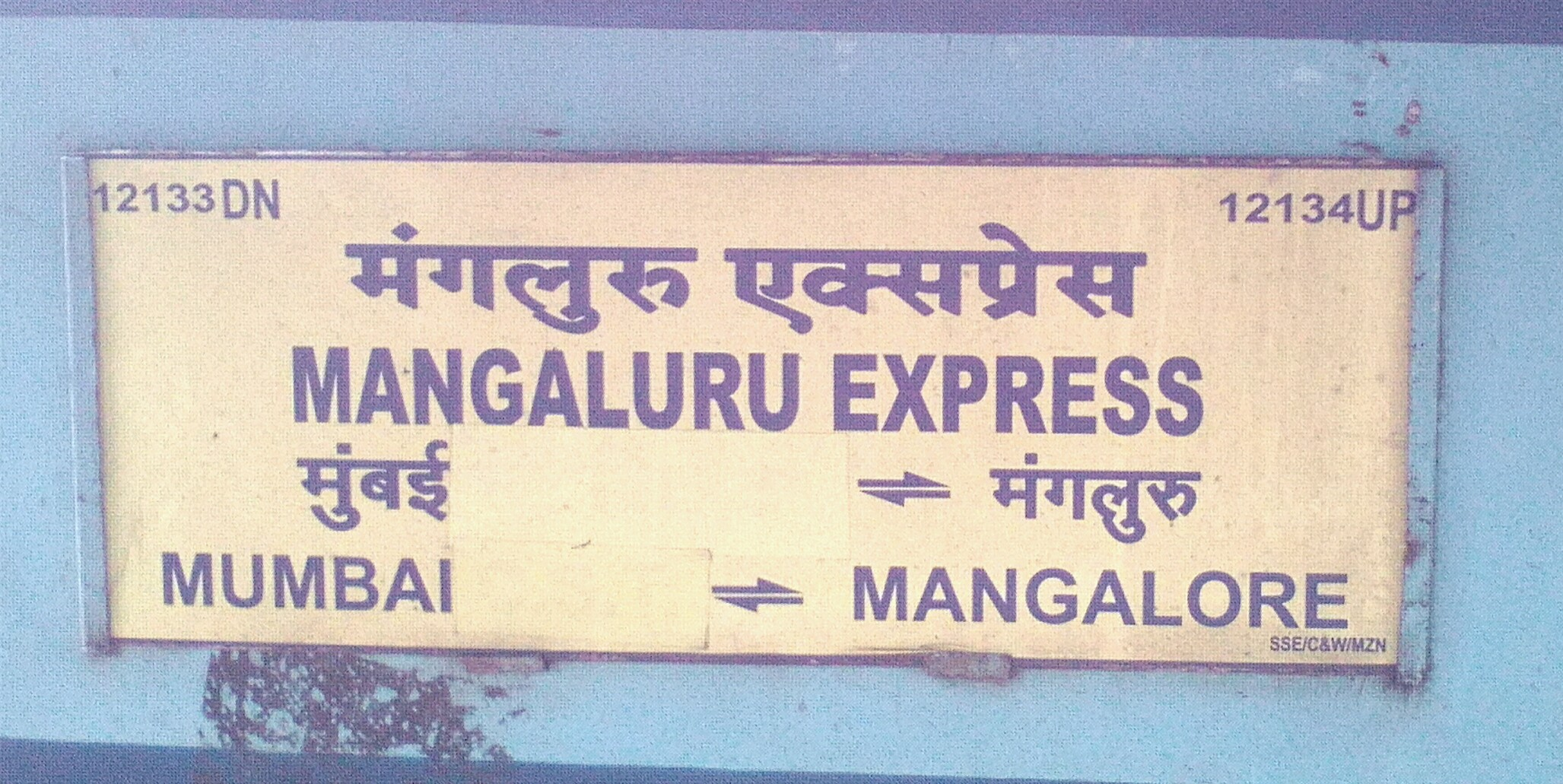 Mumbai CST Mangluru Jn Express Nameboard